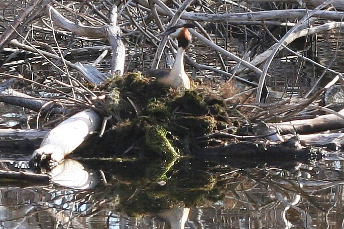 Great Crested Grebe, Podiceps cristatus, nest.